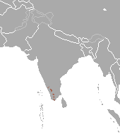 Nilgiri Marten (Martes gwatkinsii) range